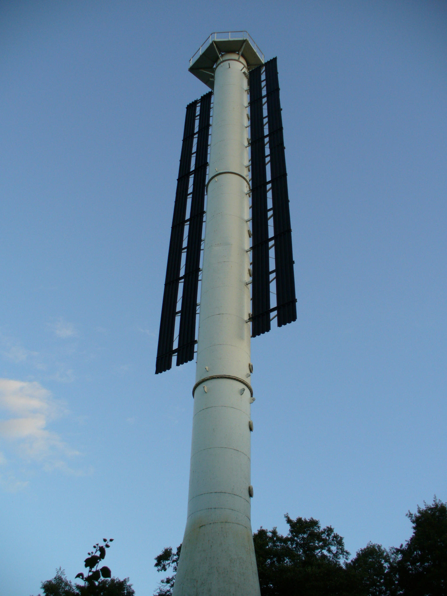 Rear lighthouse of Kallavere range (Kallavere sihi ülemine tuletorn in Estonian). Kallavere village, Jõelähtme Parish, Harju County, Estonia